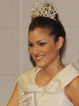 Miss Panama 2010, Anyolí Ábrego, and the Panamanian ambassador to Peru, Carlos Luis Linares, address the Peruvian Congress, in support of activities to raise funds for the social work of the Ladies Committee of the Congress of the Republic.